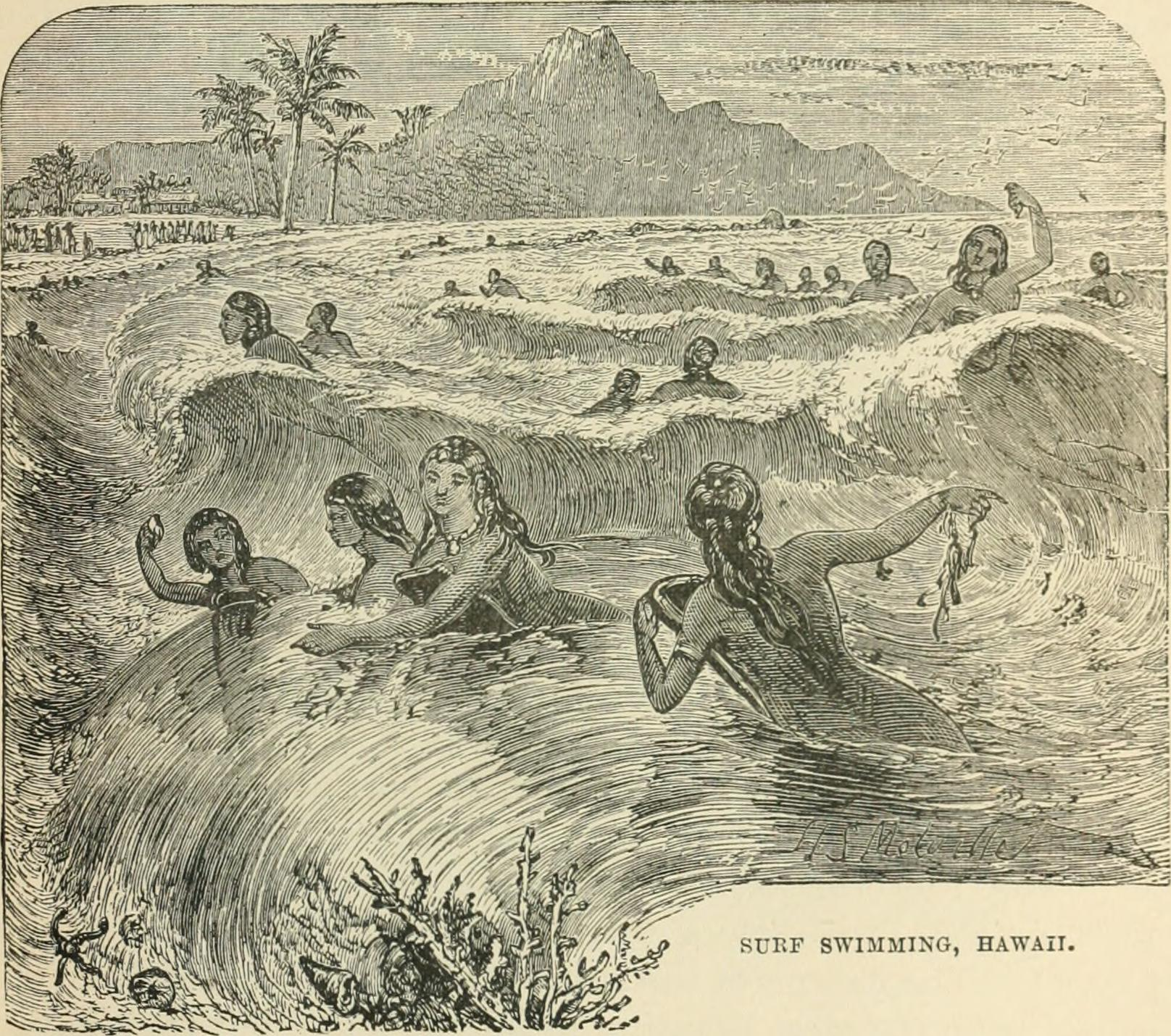 Image from page 932 of "The world's inhabitants; or, Mankind, animals, and plants; being a popular account of the races and nations of mankind, past and present, and the animals and plants inhabiting the great continents and principal islands" (1888)